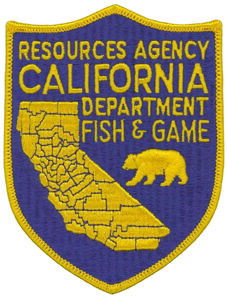 Patch